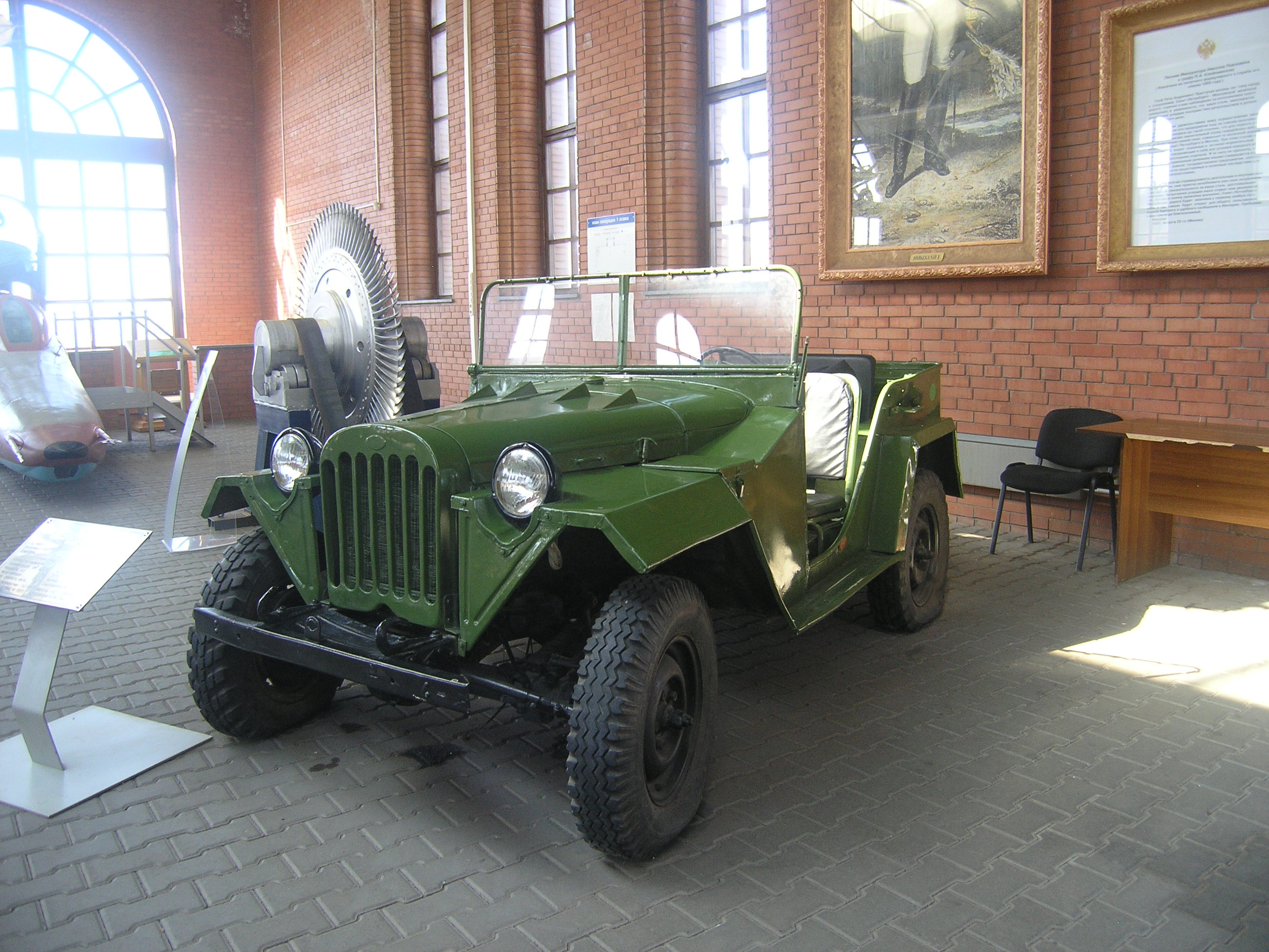 GAZ-67B in Technical museum Togliatti